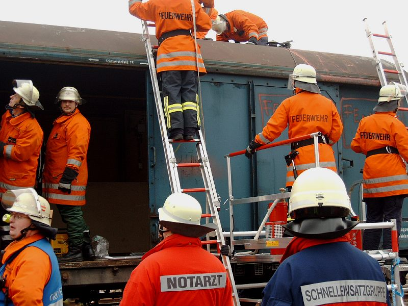 Civil protection exercise in Karlsruhe, Germany.